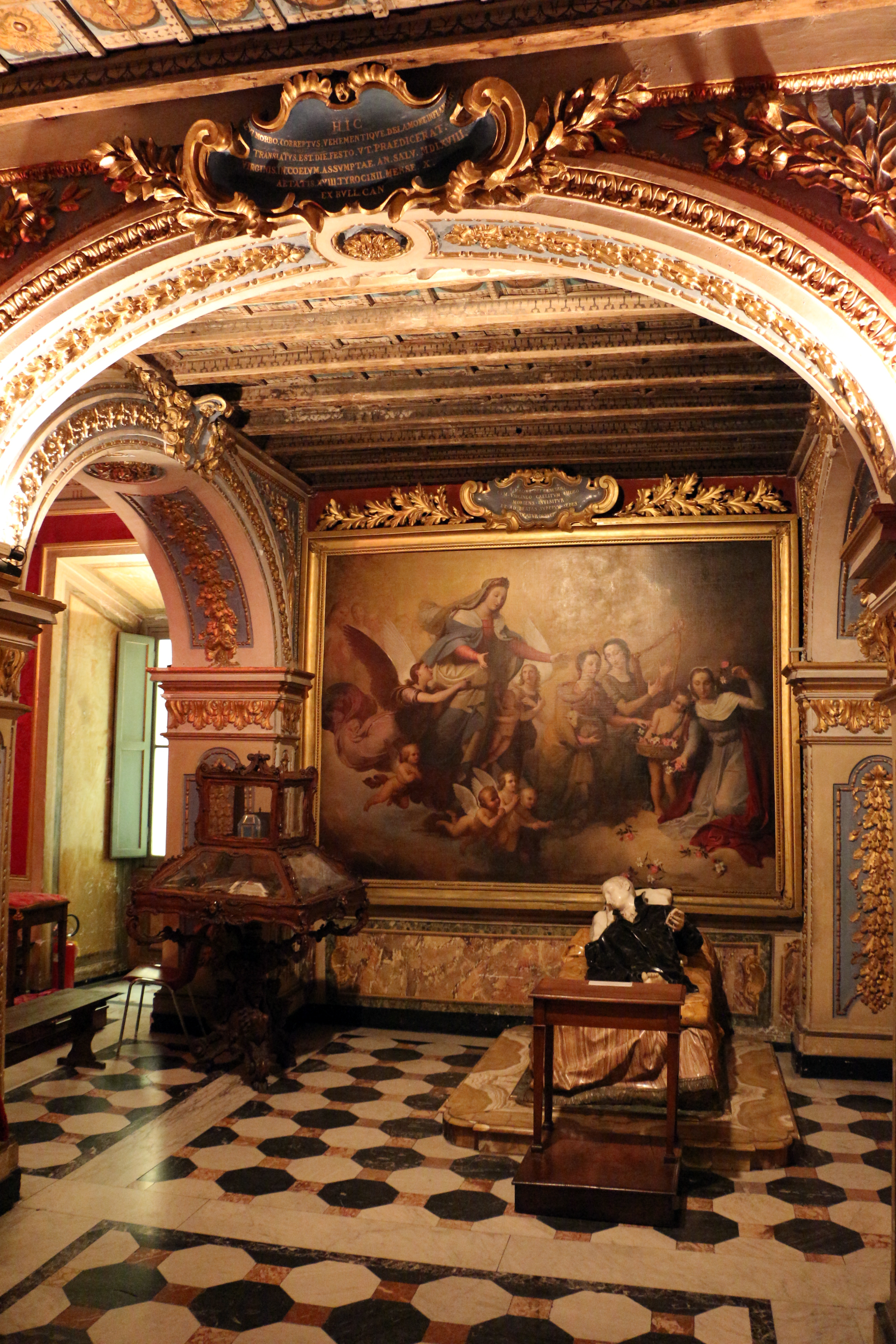 Sant'Andrea al Quirinale - Saint Stanislaw Kostka Rooms. Statue by Pierre Le Gros the Younger, 1702-1703; painting by Tommaso Minardi, 1825